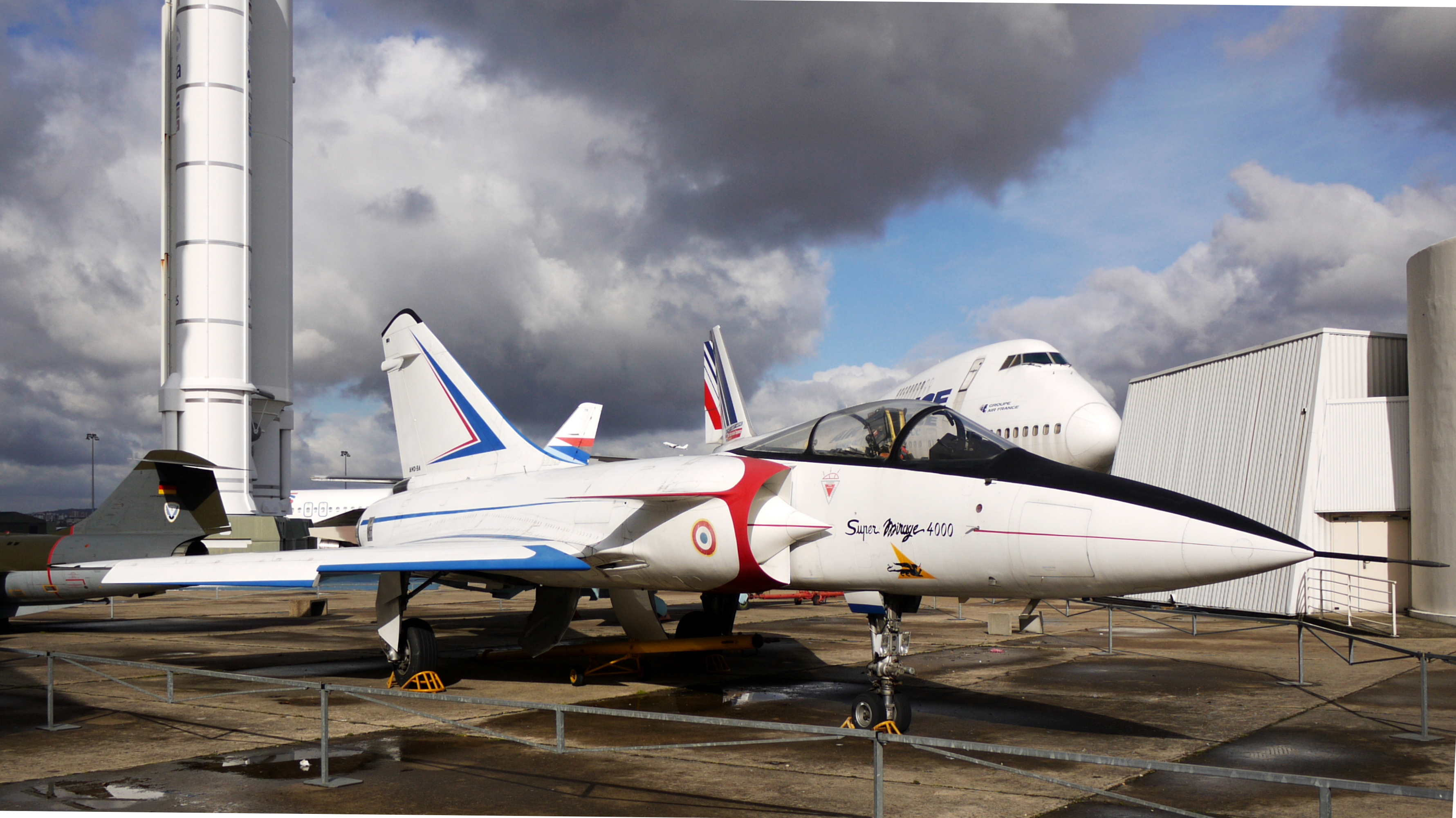 Fighter aircraft Mirage 4000 prototype (1979), Museum of Air and Space Paris, Le Bourget (France)